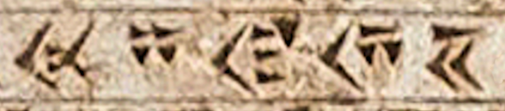 DNA inscription Hidush